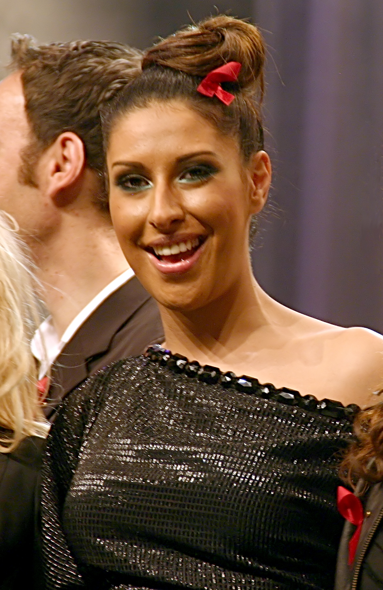 Senna Guemmour, Monrose, on the charity concert "Cover me" at Palladium, Cologne, Germany.